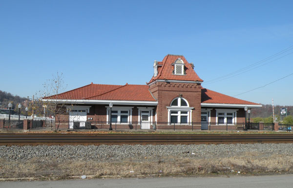 Picture of the Homestead Pennsylvania Railroad Station located on Amity Street in Homestead, Pennsylvania, on November 8, 2009. The station was built around 1890, and is listed on the National Register of Historic Places.